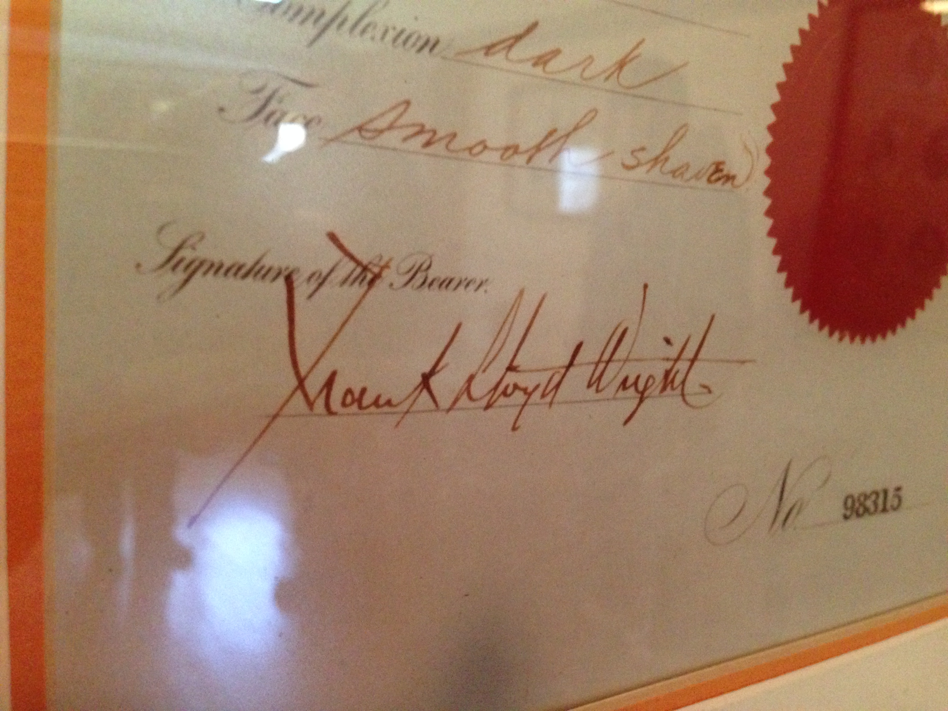 Frank Lloyd Wright Signature